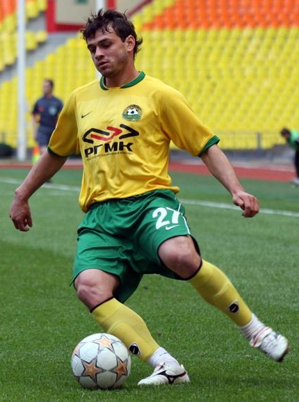 Elbrus Zurayev in action for FC Kuban